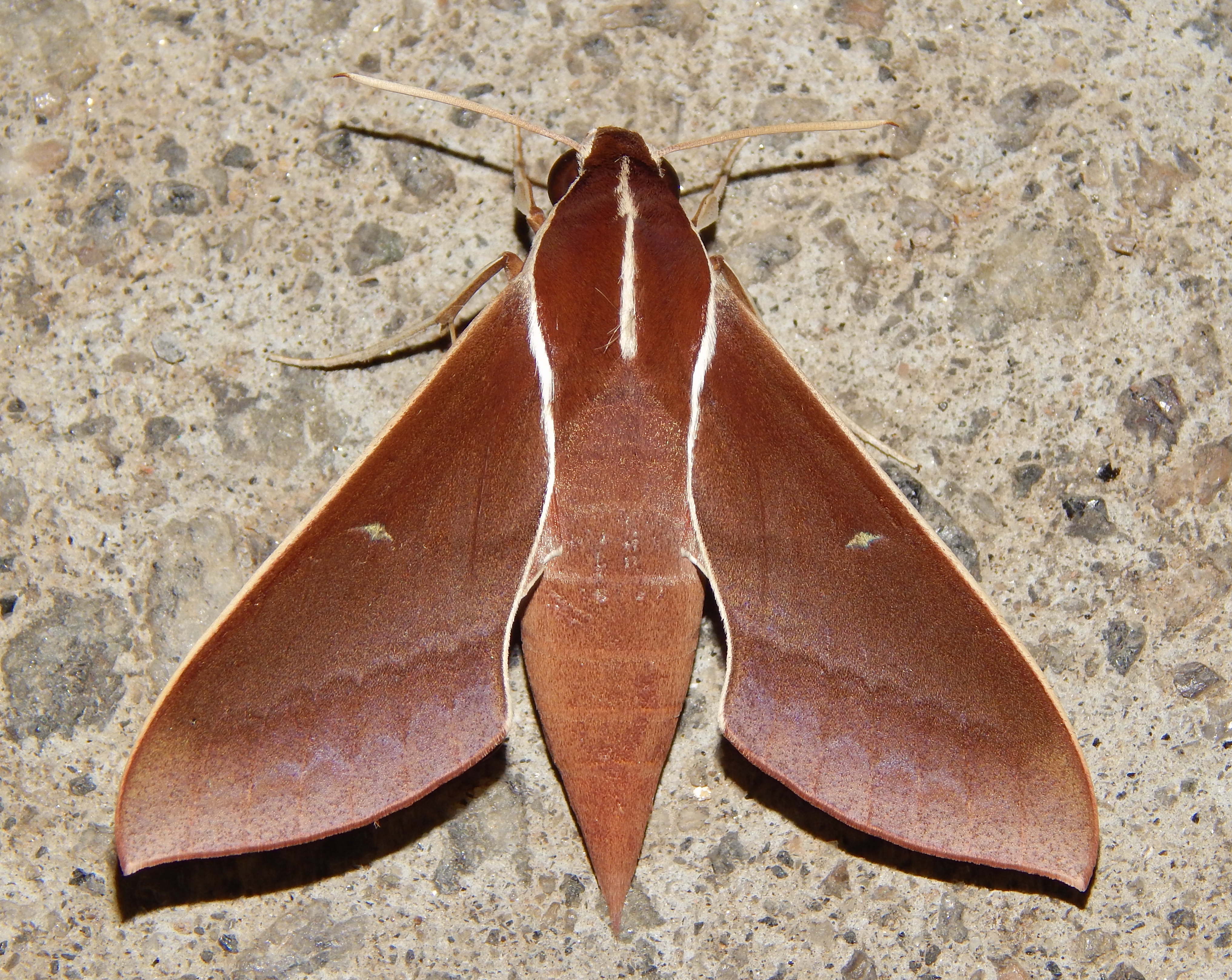 Theretra pallicosta from Coorg, Western ghats of India